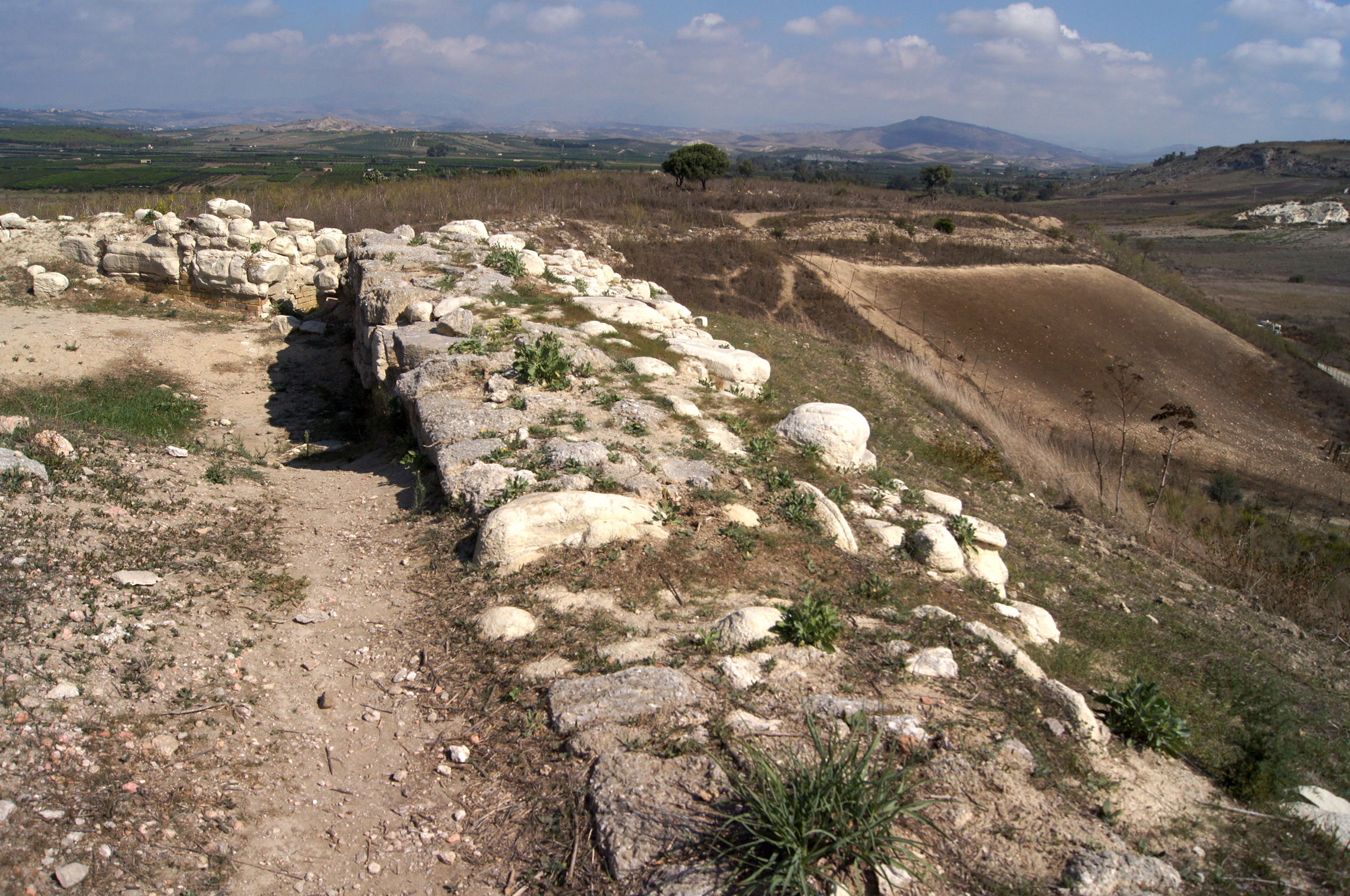 Heraclea City walls